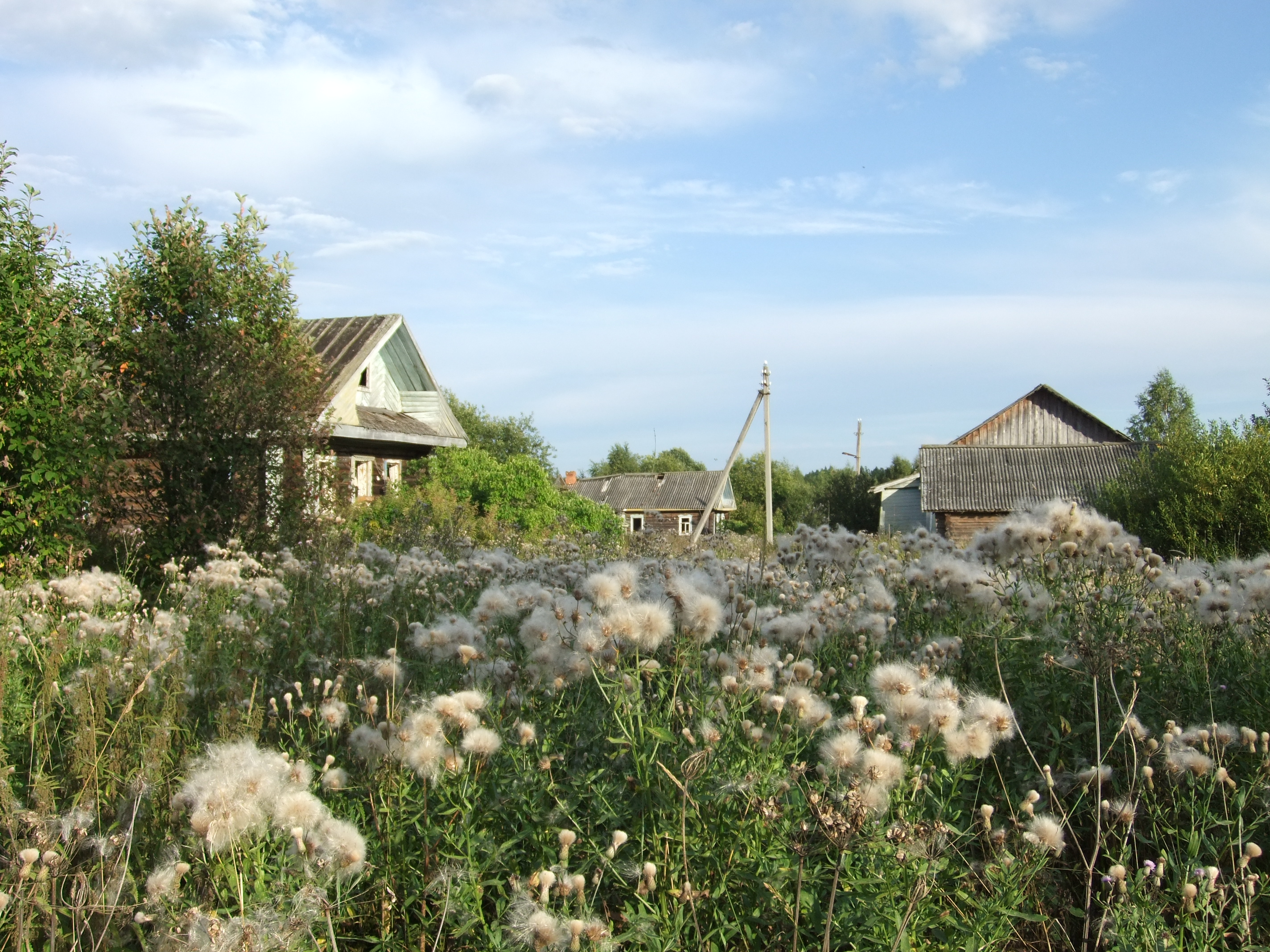 Dermenino, an abandoned village in the Poshekhonye District of Yaroslavl Oblast, in northern Russia. Some houses are in ruins, some still are looking more or less alright from the oustide - but surrounded by weeds. Here and there, surviving perennial flowers, berry shrubs (red and black currants), apple trees can still be seen in the yards.